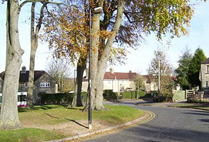 A photo of an area called 'the beeches' at Whiteway, Bath.